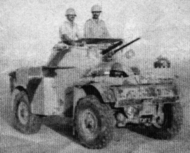 Panhard AML-60-20 of the Iraqi Army, shown here shortly after Iraq's purchase of 60 from France. This particular model by Panhard was acquired in the mid to late 1970s and appeared publicly from 1975 onwards.